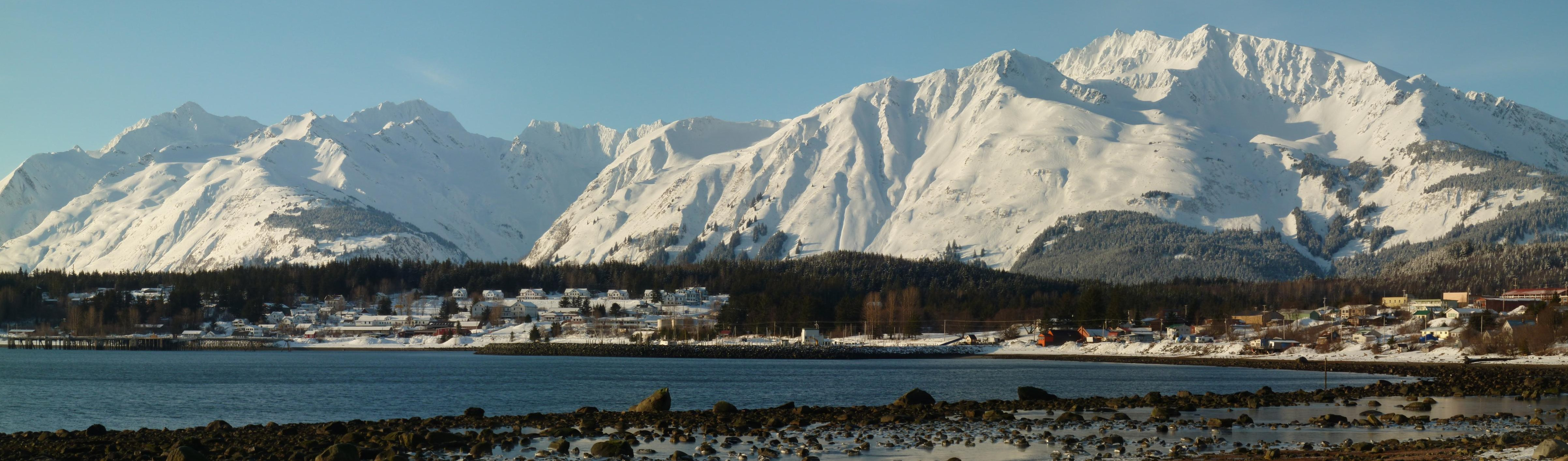 A Beautiful Day In Haines Alaska, as seen from Picture Point on Lutak Road.